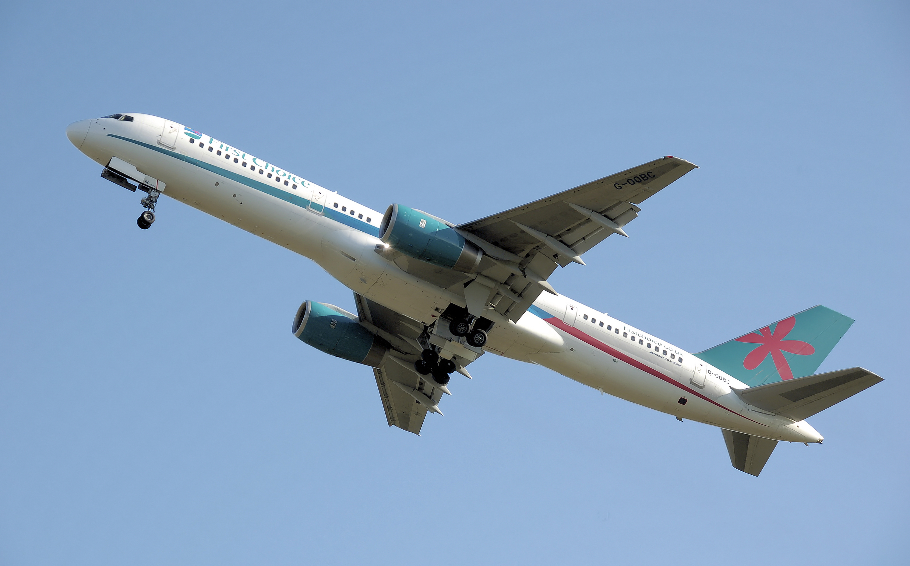 First Choice Airways Boeing 757-200 (G-OOBC) takes off from Bristol International Airport, Bristol, England.